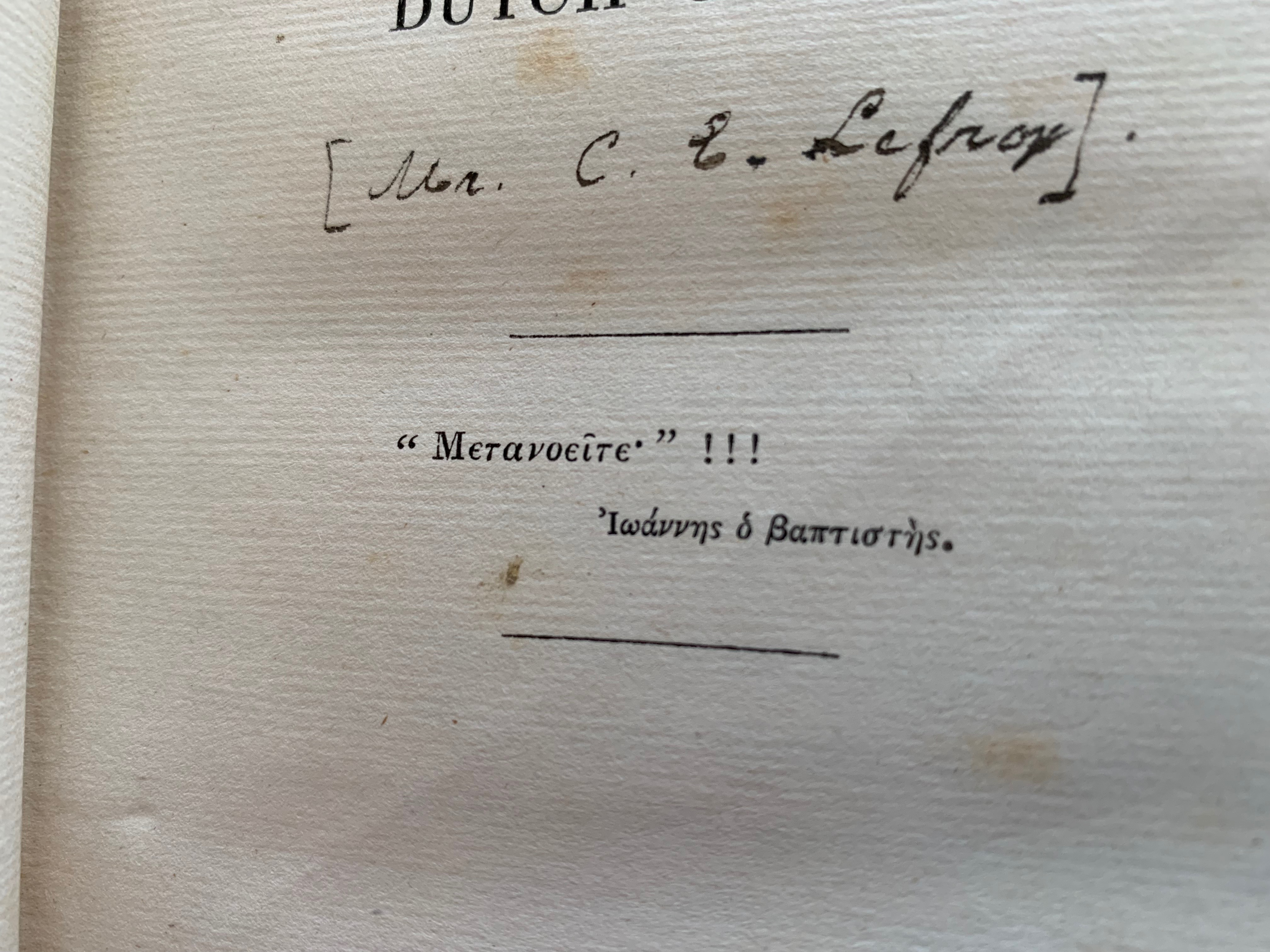 "Outalissi; a tale of Dutch Guiana is a abolitionist novel written by Christoper Edward Lefroy, published in 1826